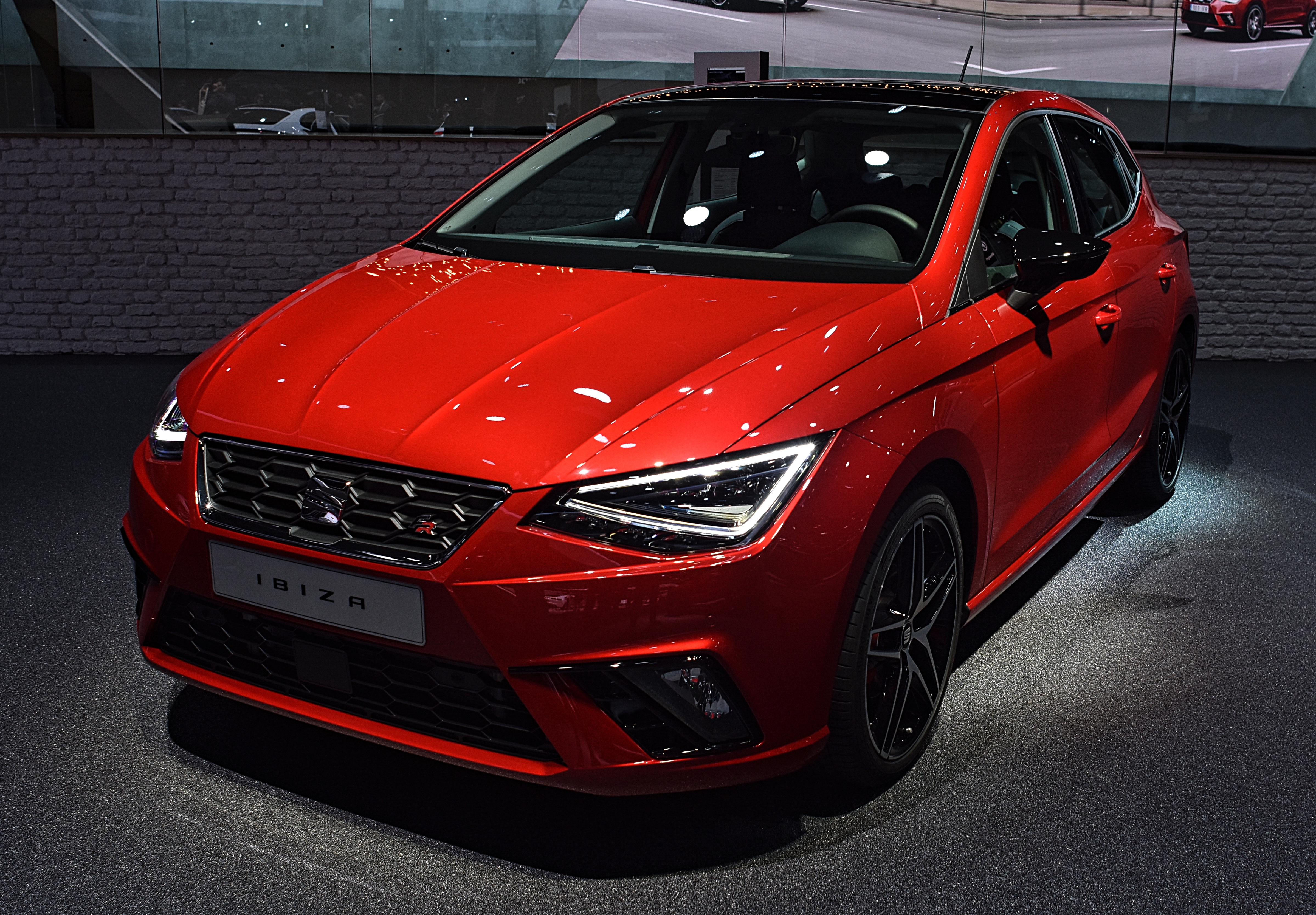 Seat at IAA 2017